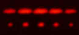 (c) 2002 B. Crowell, GFDL licensed